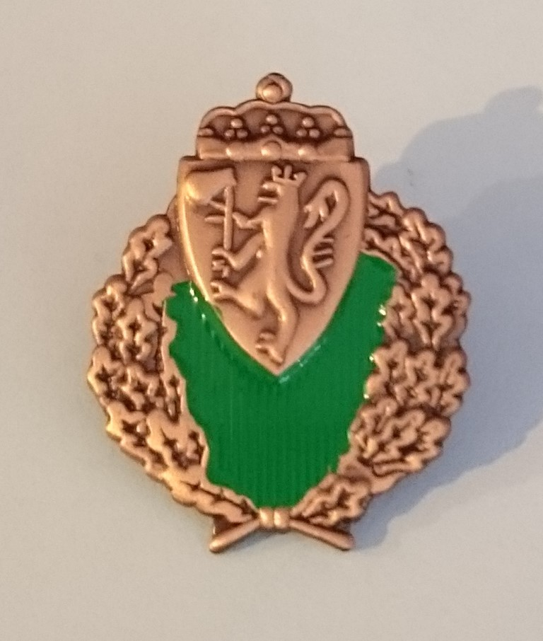 Idrettsmerket (Norges idrettsforbunds idrettsmerke) in Bronze